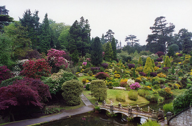 Alton Towers The perfect gardens adjacent to the theme park. The towers can be spotted through the trees (centre frame).